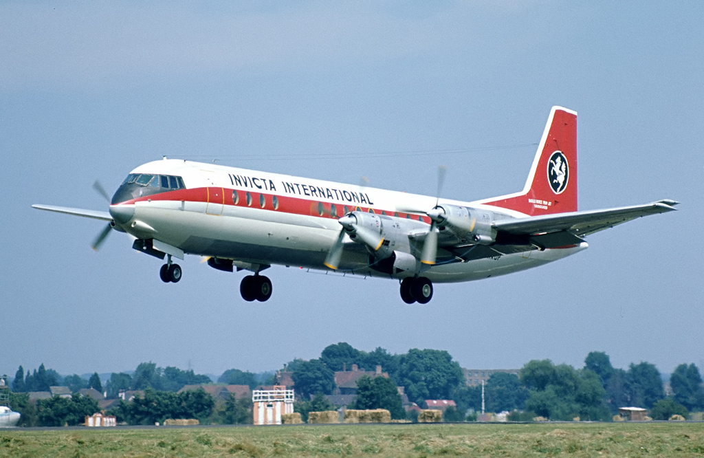 G-AXOP (cn 745) Seen here leaving Southend after maintenance, this Vanguard sadly crashed 15 kms S of BSL in bad weather whilst on an attempted approach after a charter flight from BRS on 10.4.73